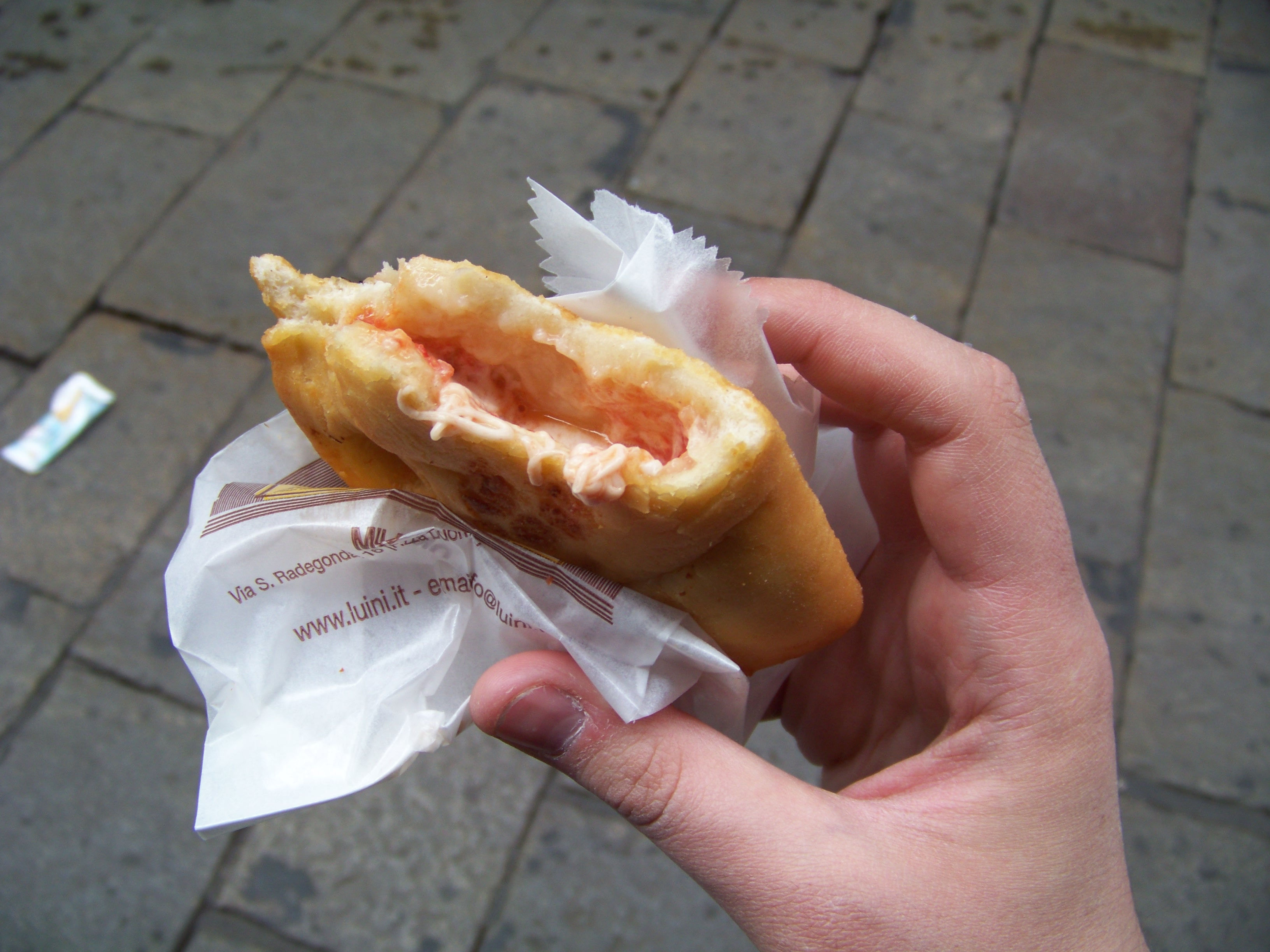 panzerotti -- A panzerotti from the Luini bakery. It was voted the best eatery in Milan by multiple books so I had to try one, and it was amazing.